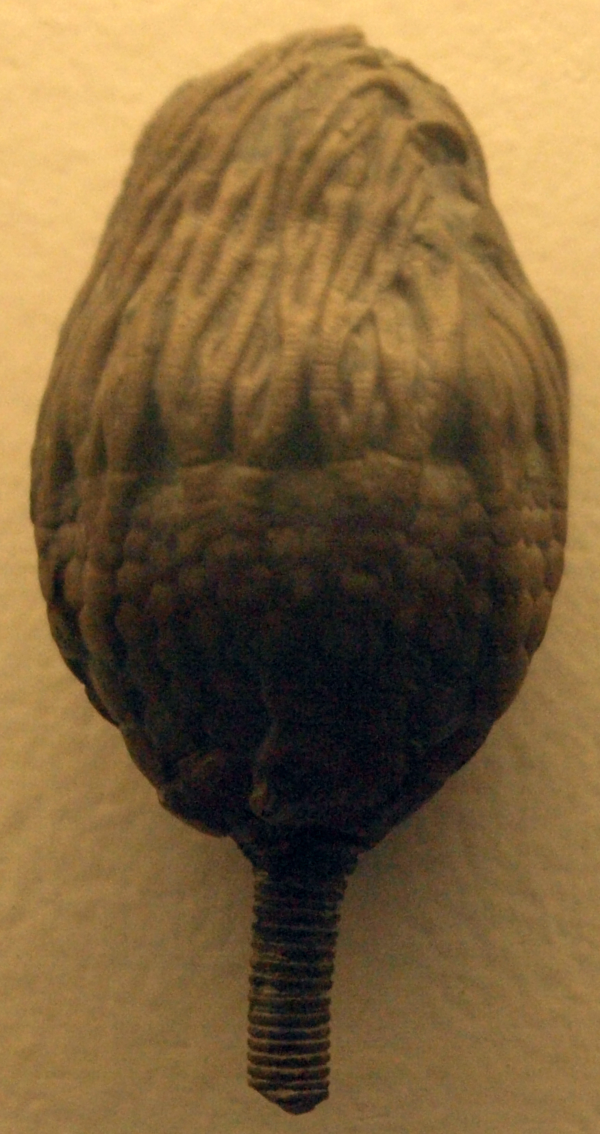 Sagenocrinites expansus (Phillips) (See Sagenocrinites), a type of crinoid. Silurian Wenlock series, found at Dudley, Worcestershire. Fossilworks PaleoDB link: Sagenocrinites (extinct)